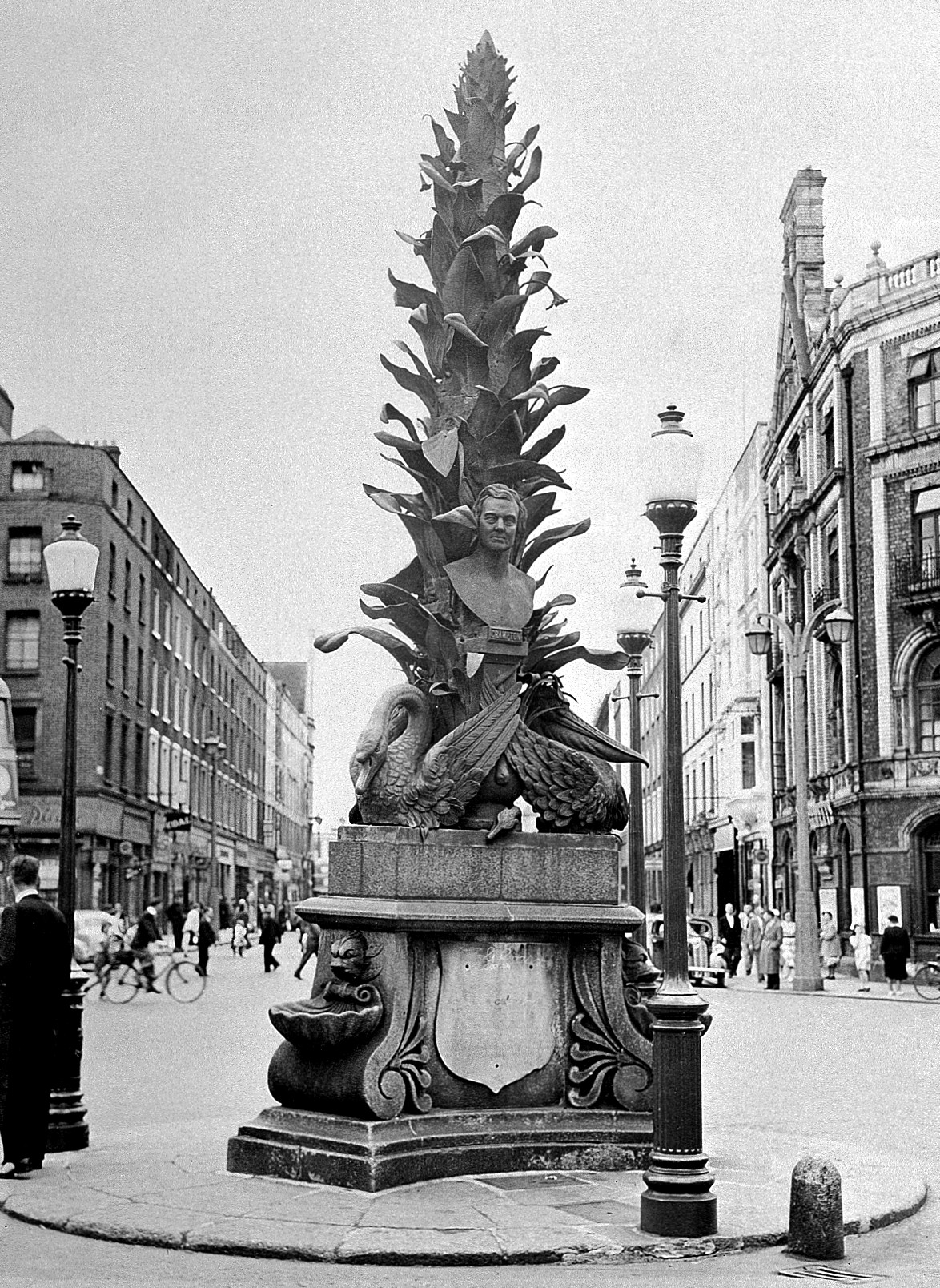 Sir Philip Crampton's memorial in Dublin Iconographic Collections Keywords: Philip Crampton